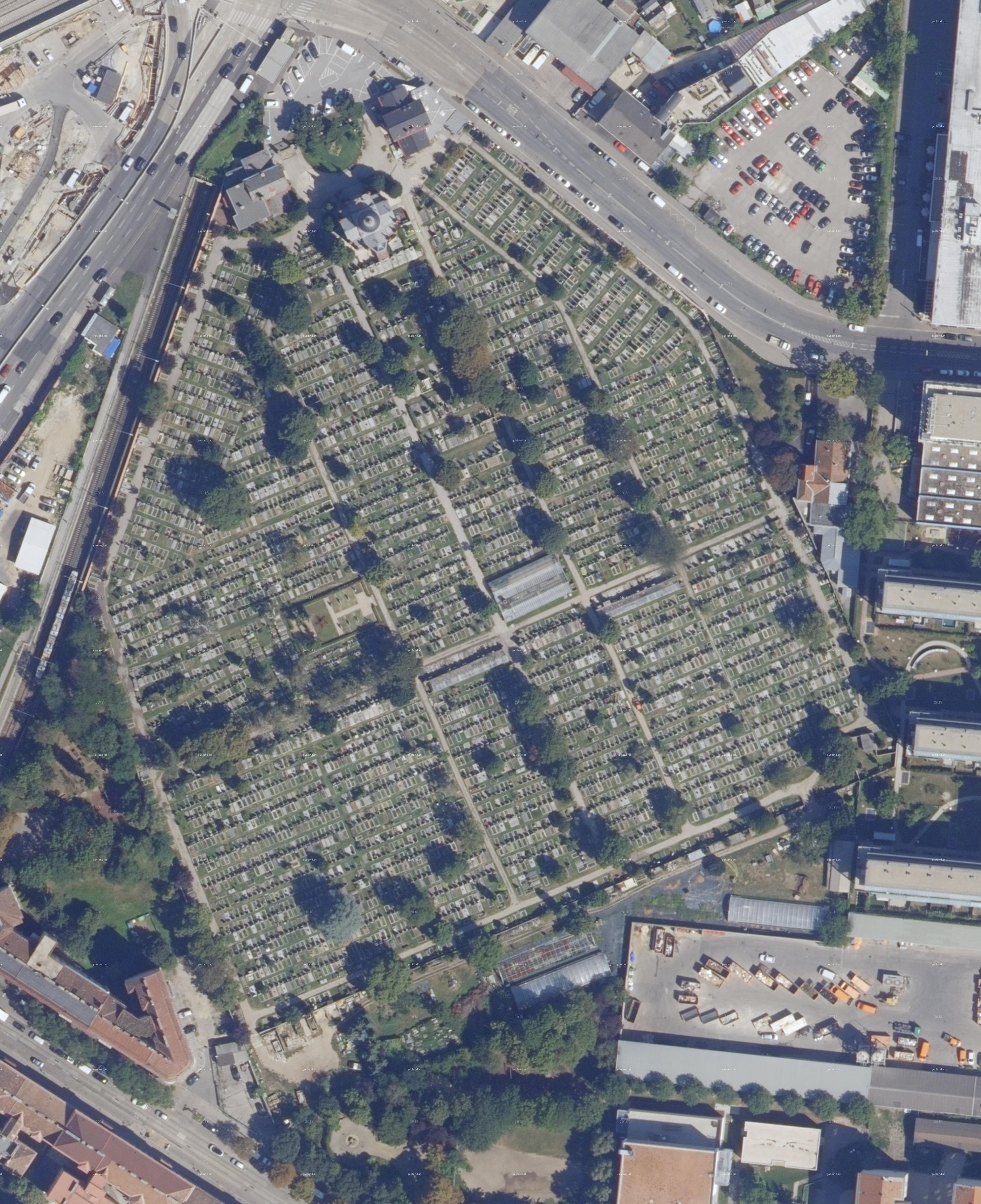 Orthophoto of the cemetery Matzleinsdorf in Vienna, Austria